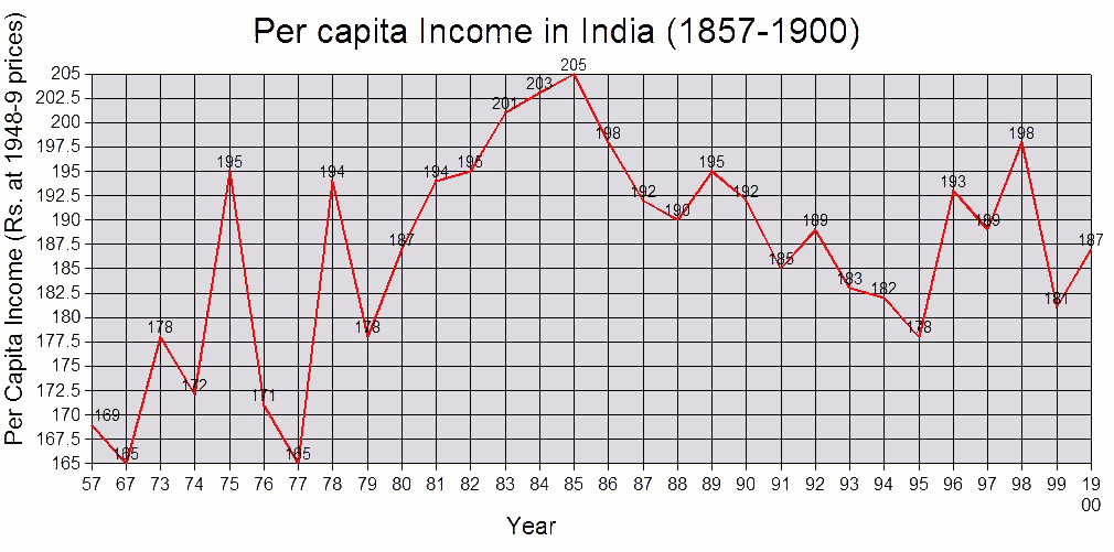 Precolonial National Income of India (1857-1900), using data from: pg 422, Kumar, Dharma (Ed.) (1982). The Cambridge Economic History of India (Volume 2) c. 1757 - c. 1970. Penguin Books.